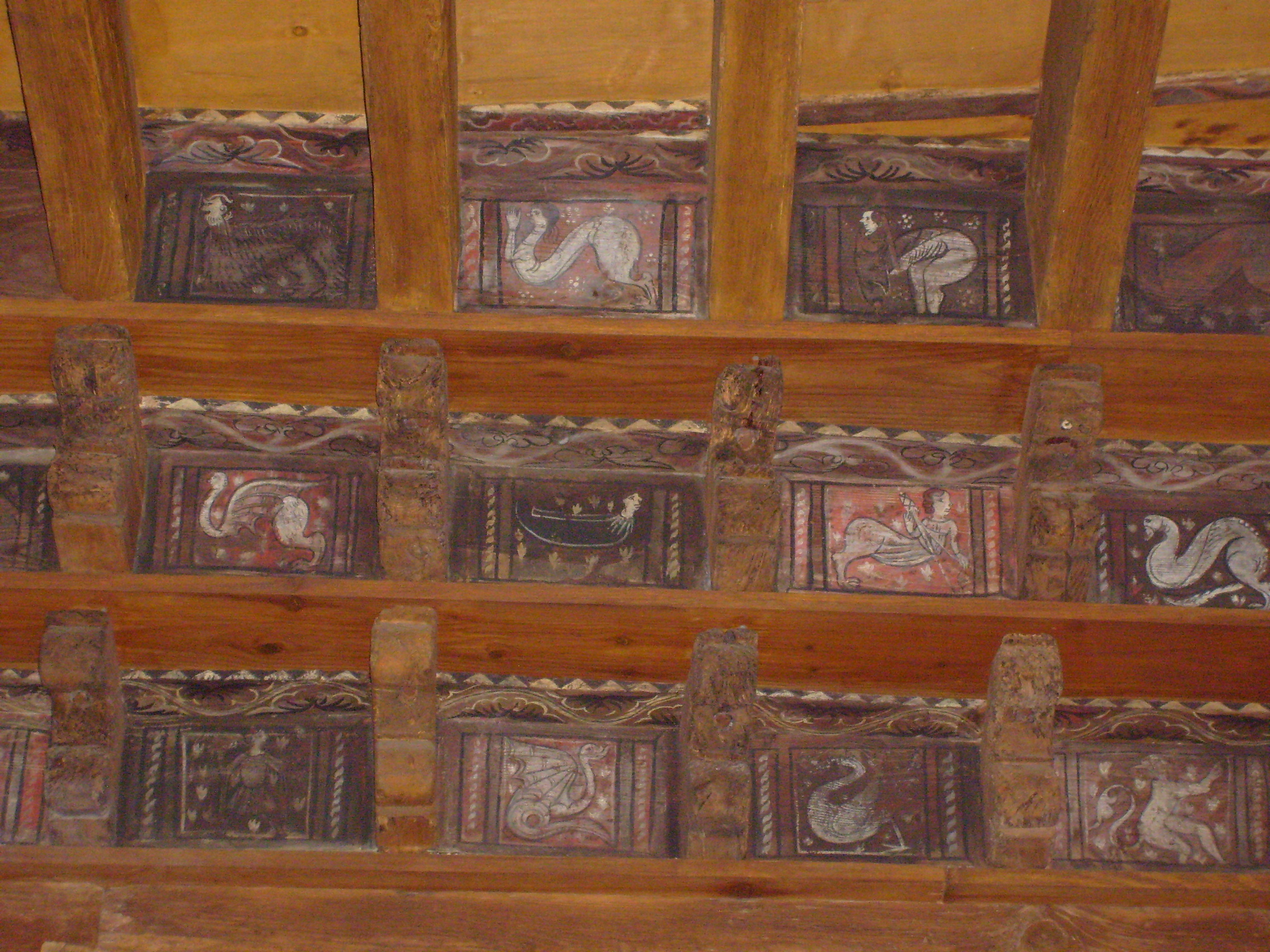 Medieval Painted Ceiling from Cloister of Frejus Cathedral, with Mythical Creatures (14th century)